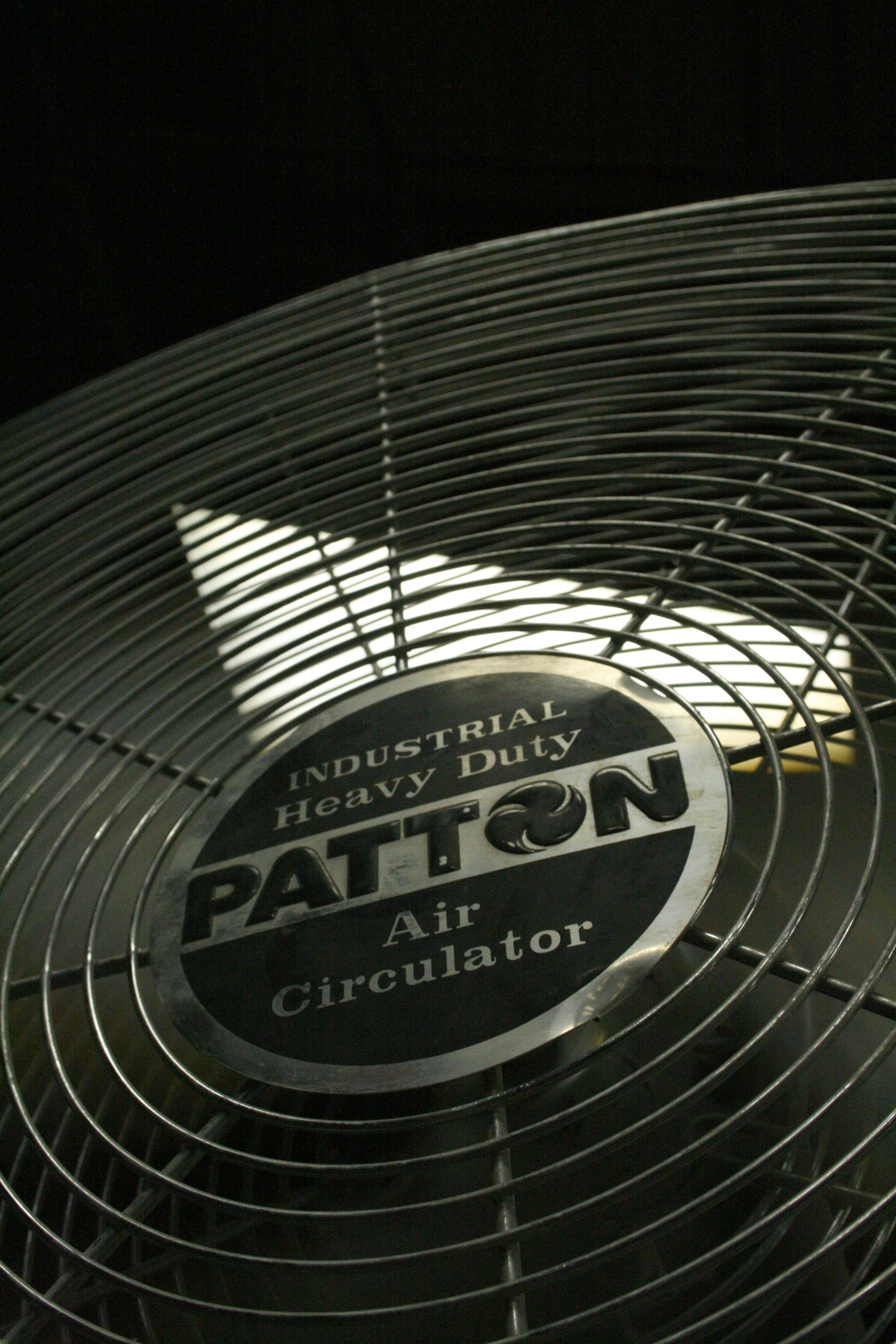 A heavy duty Patton air circulator in use.